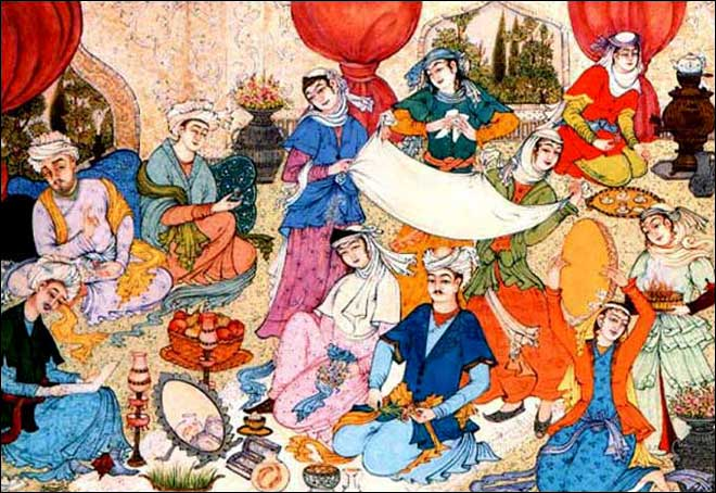 Iranian wedding ceremony on an Iranian Painting